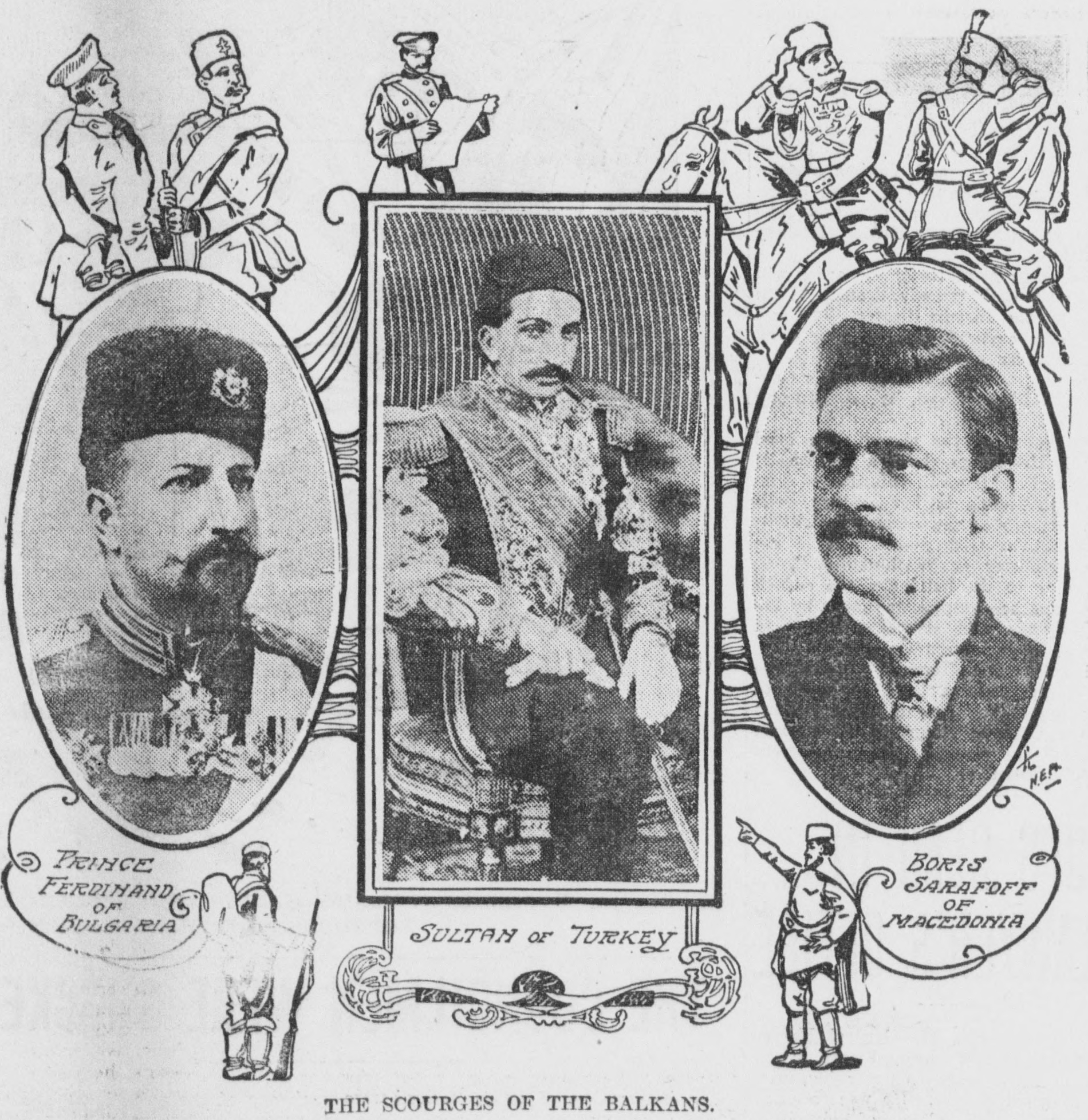 in 1904, the Tacoma Times called these three men (Prince Ferdinand of Bulgaria, Sultan Abdul Hamid II of Turkey, and Boris Sarafoff of Macedonia) the "Scourges of the Balkans", because it expected that they would soon go to war against each other.